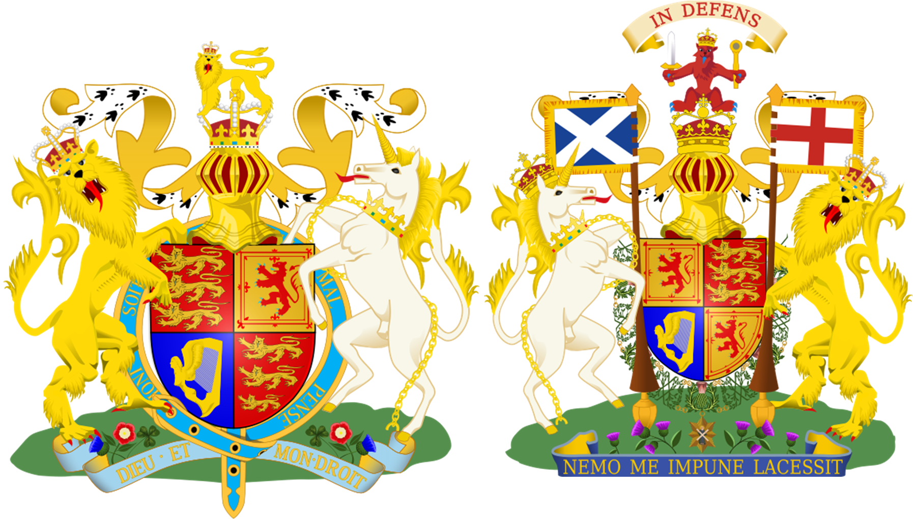 Royal coat of arms of the United Kingdom.